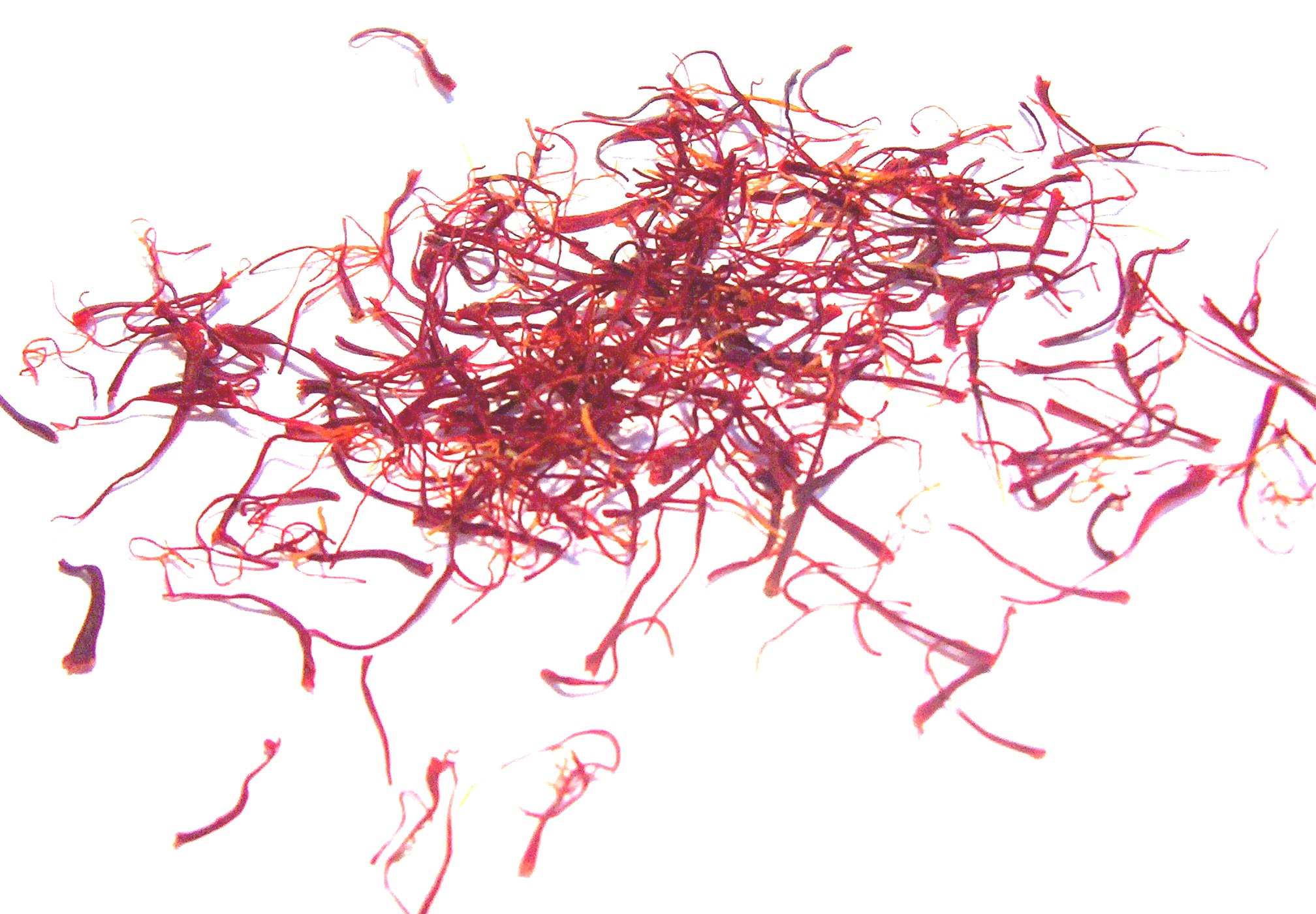 saffron spice